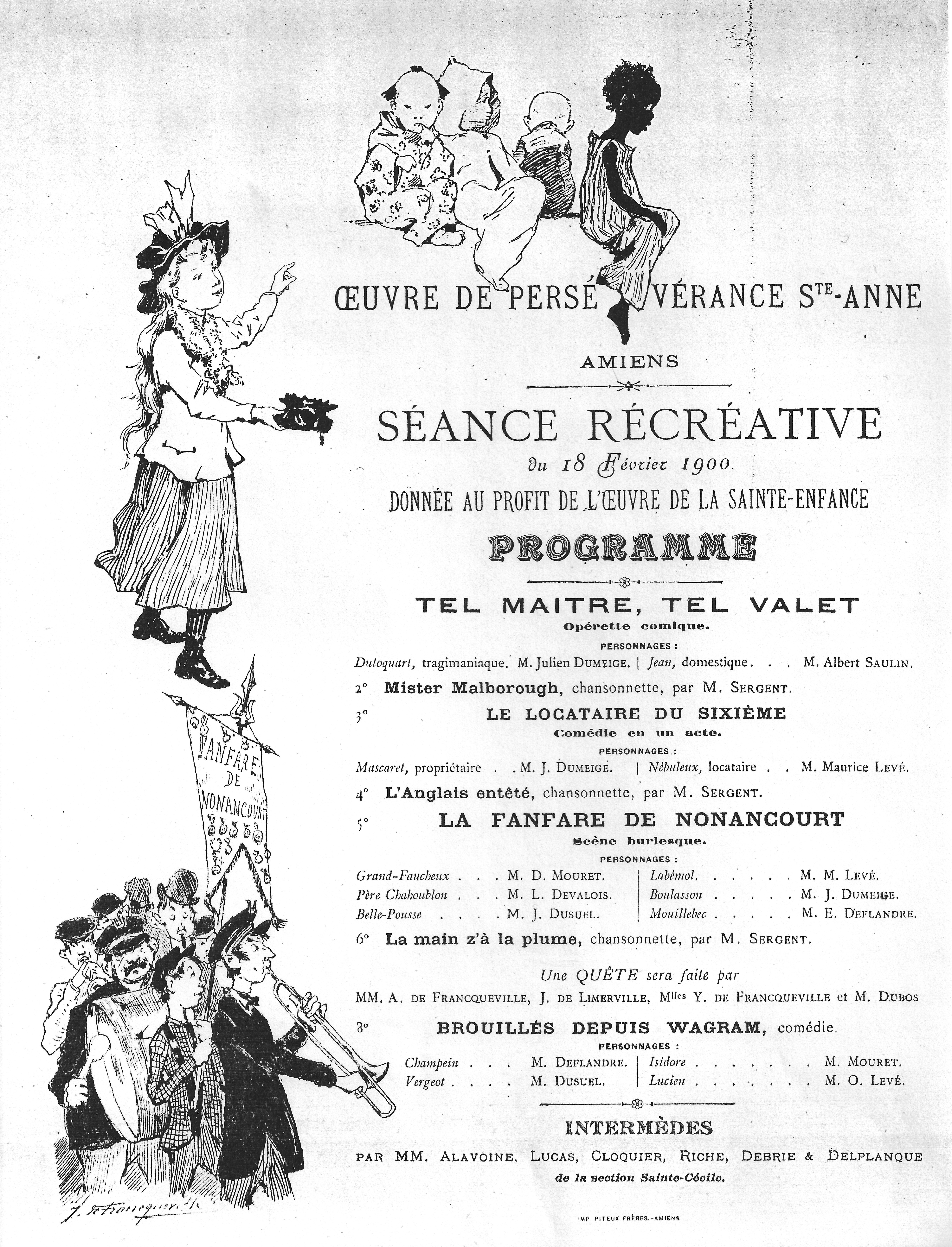 Affiche 3 Jean de Francqueville